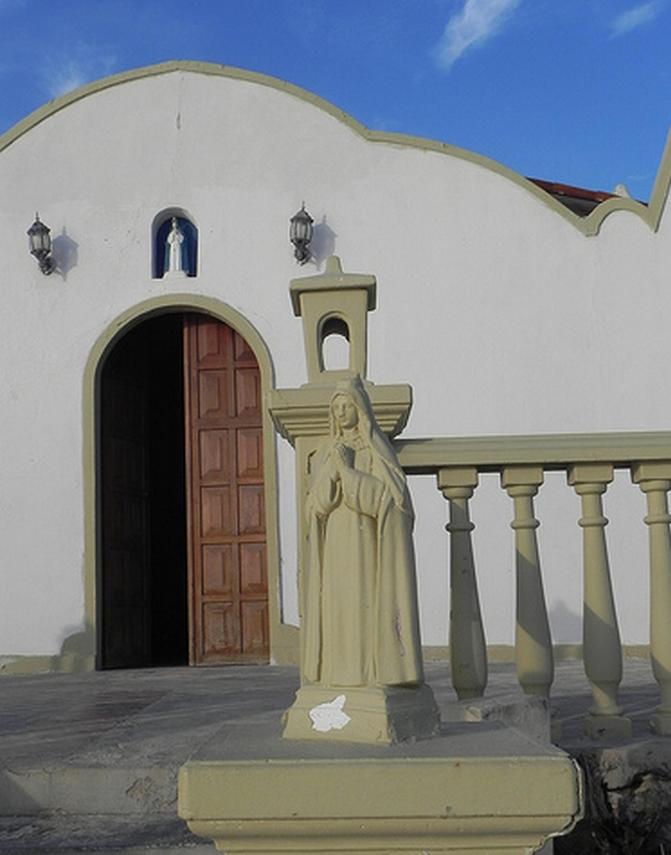 Chapel on the island of Gran Roque, Los Roques Venezuela